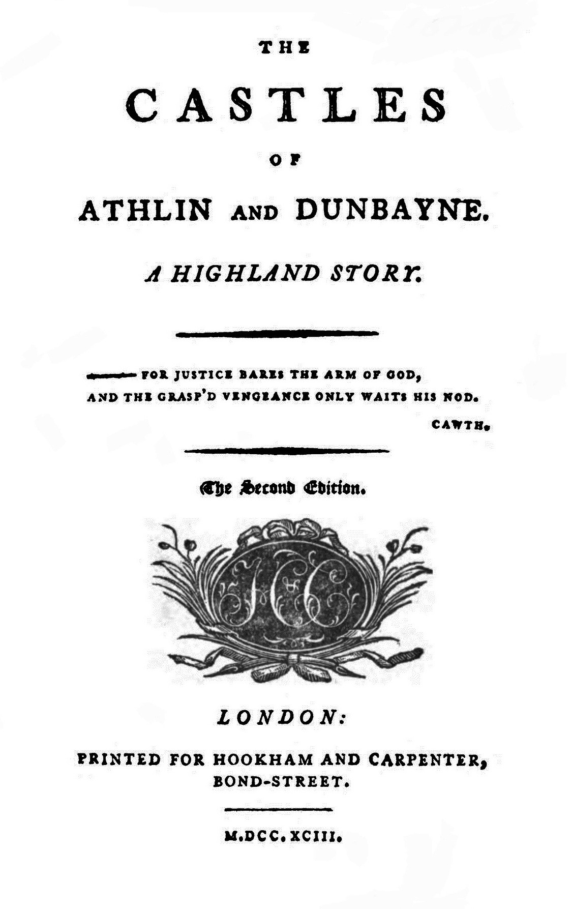 The Castles of Athlin and Dunbayne 2nd edition